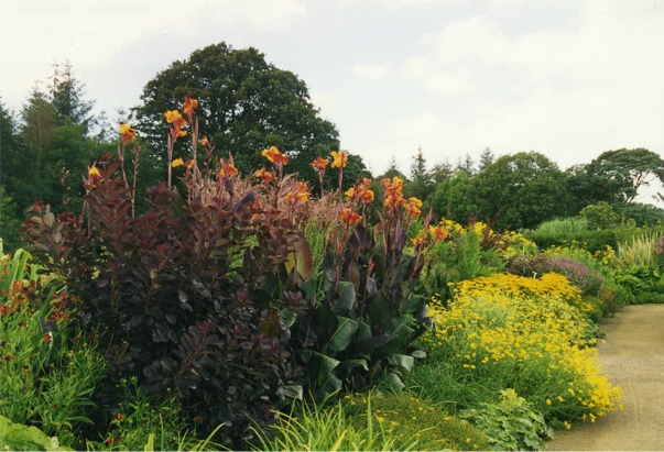 Herbaceous border at Rosemoor Garden, Devon